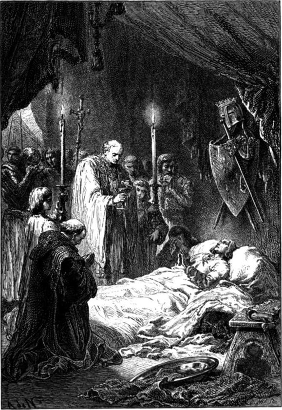 The Death of Saint Louis.